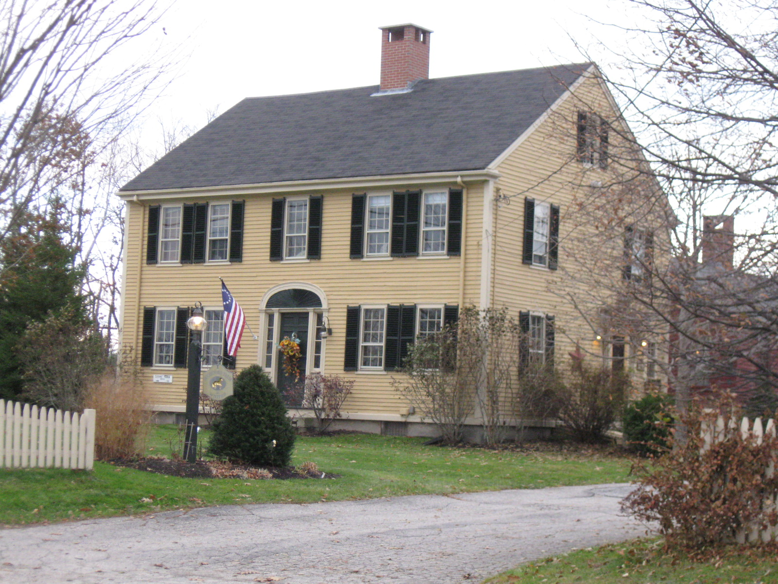 Cushing and Hannah Prince House, Yarmouth, Maine. Photo by Ken Gallager, Nov. 11, 2011.